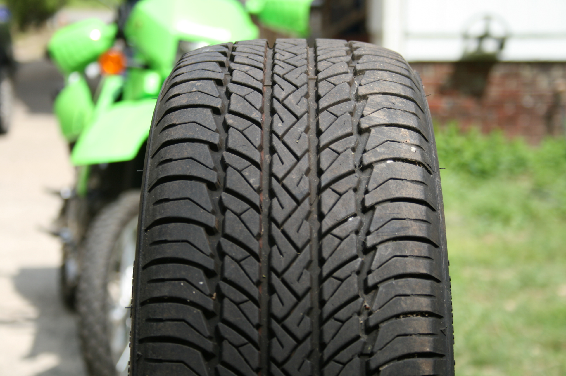 An automobile tyre.